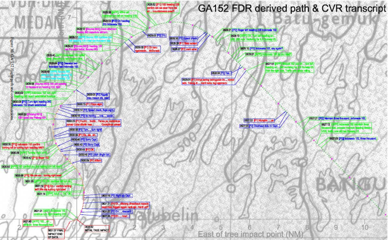 The flight path of Flight 152 with excerpts of the Cockpit Voice Recorder (CVR) transcript. The full CVR transcript can be found in appendix B of the report.